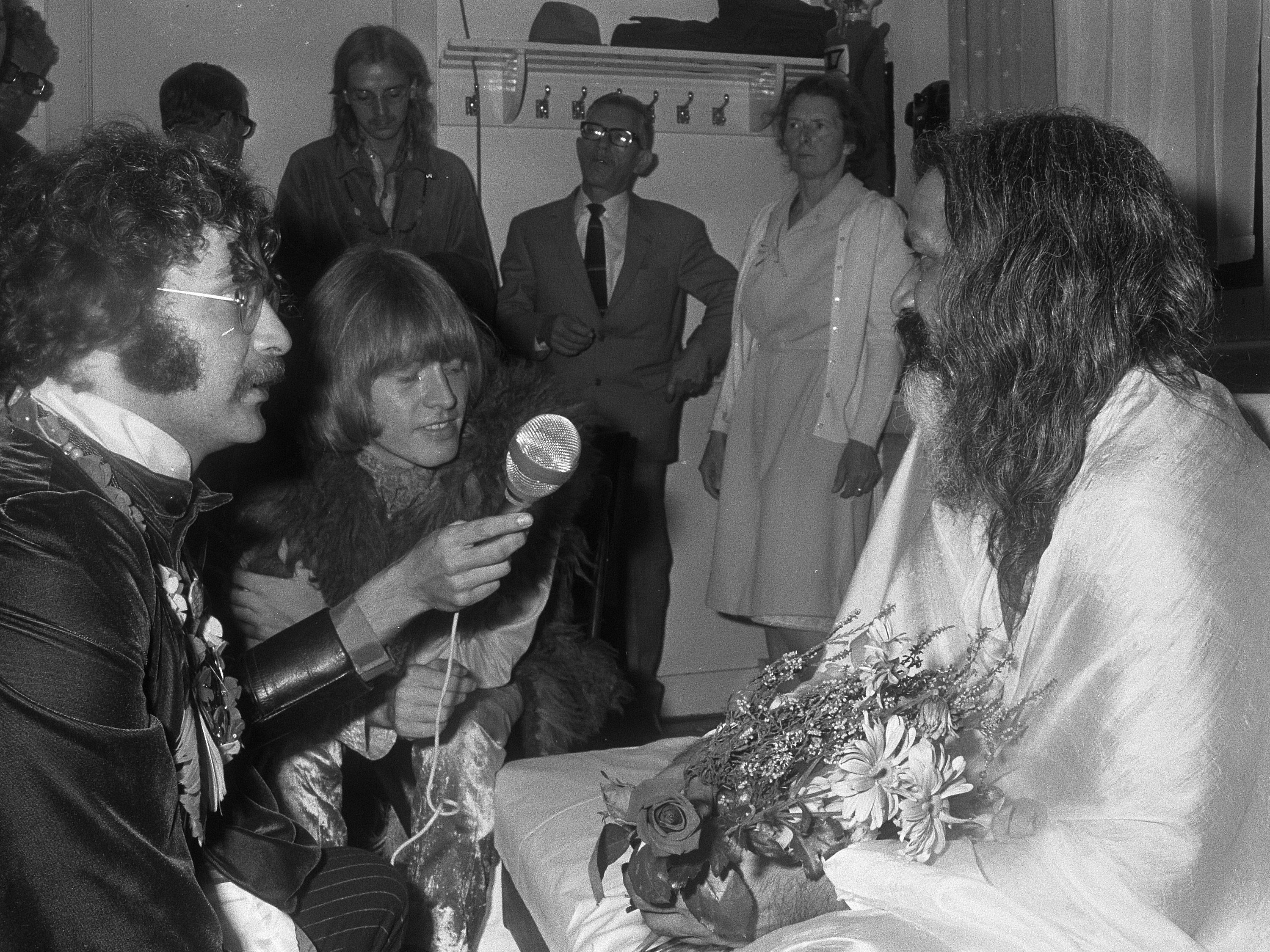 From left to right: Shepard Sherbell, Brian Jones & Maharishi Mahesh Yogi. Concertgebouw Amsterdam (NL), 1 Sept. 1967. Photo by Ben Merk (Anefo)